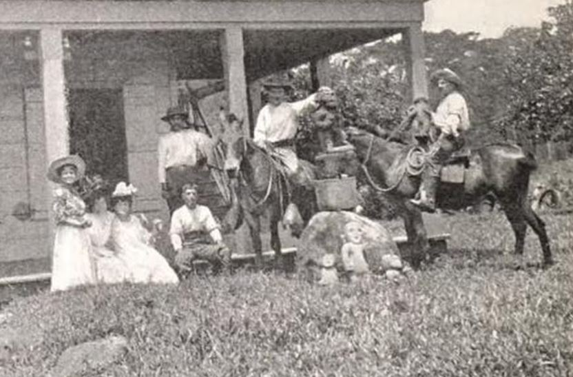 Photograph of Cecil F. Underwood and assistants displaying archaeological artifacts